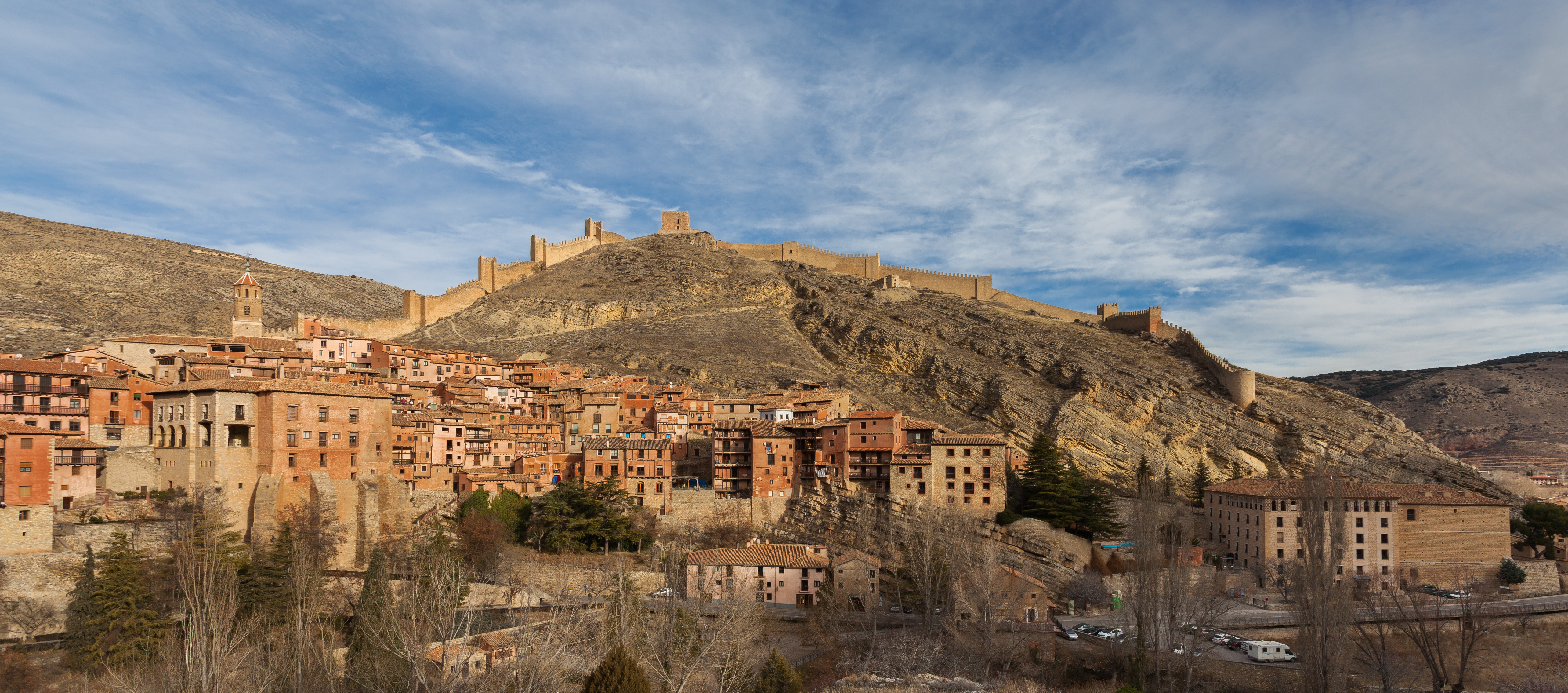 Albarracín, Teruel, Spain